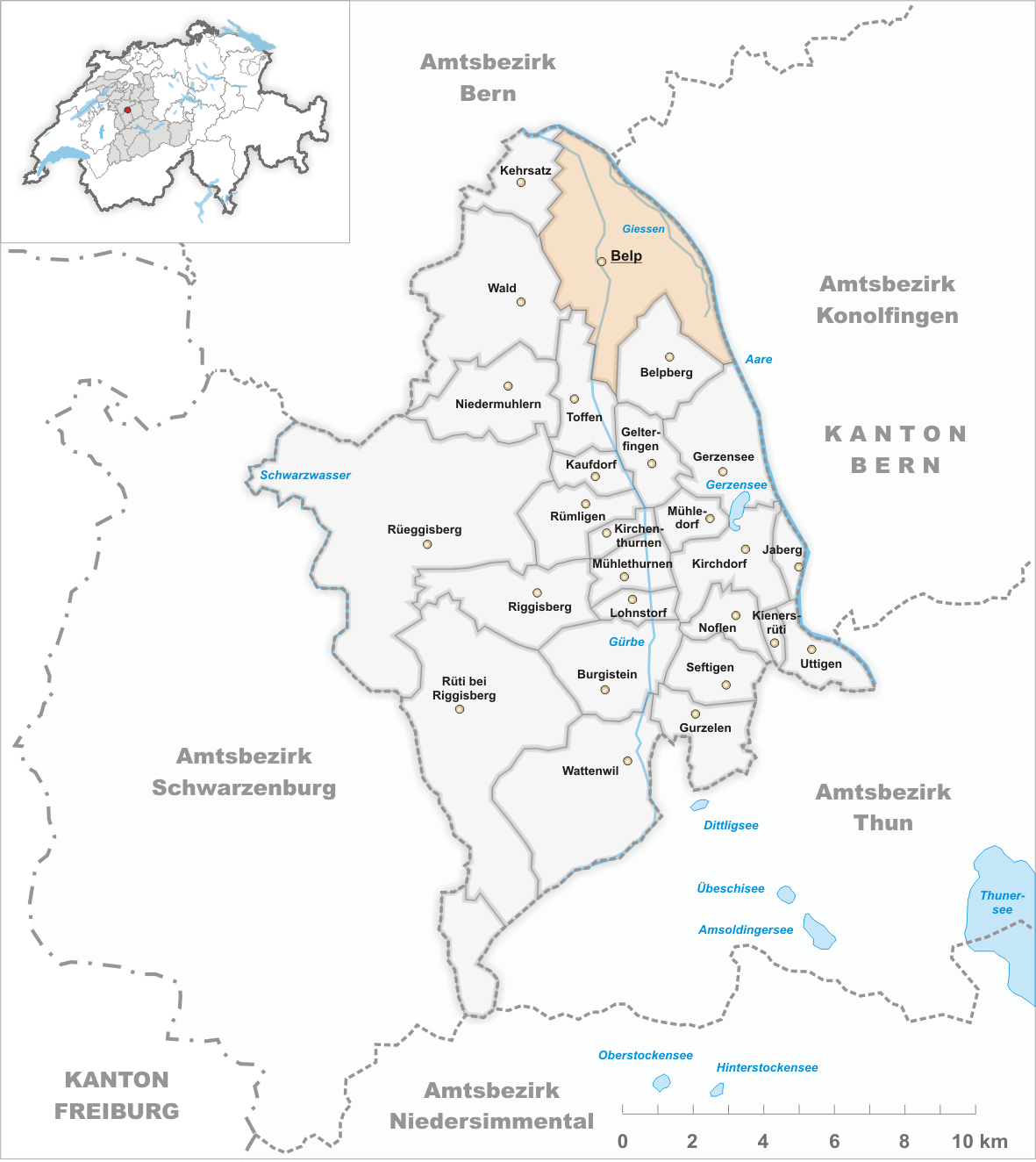 Municipality Belp